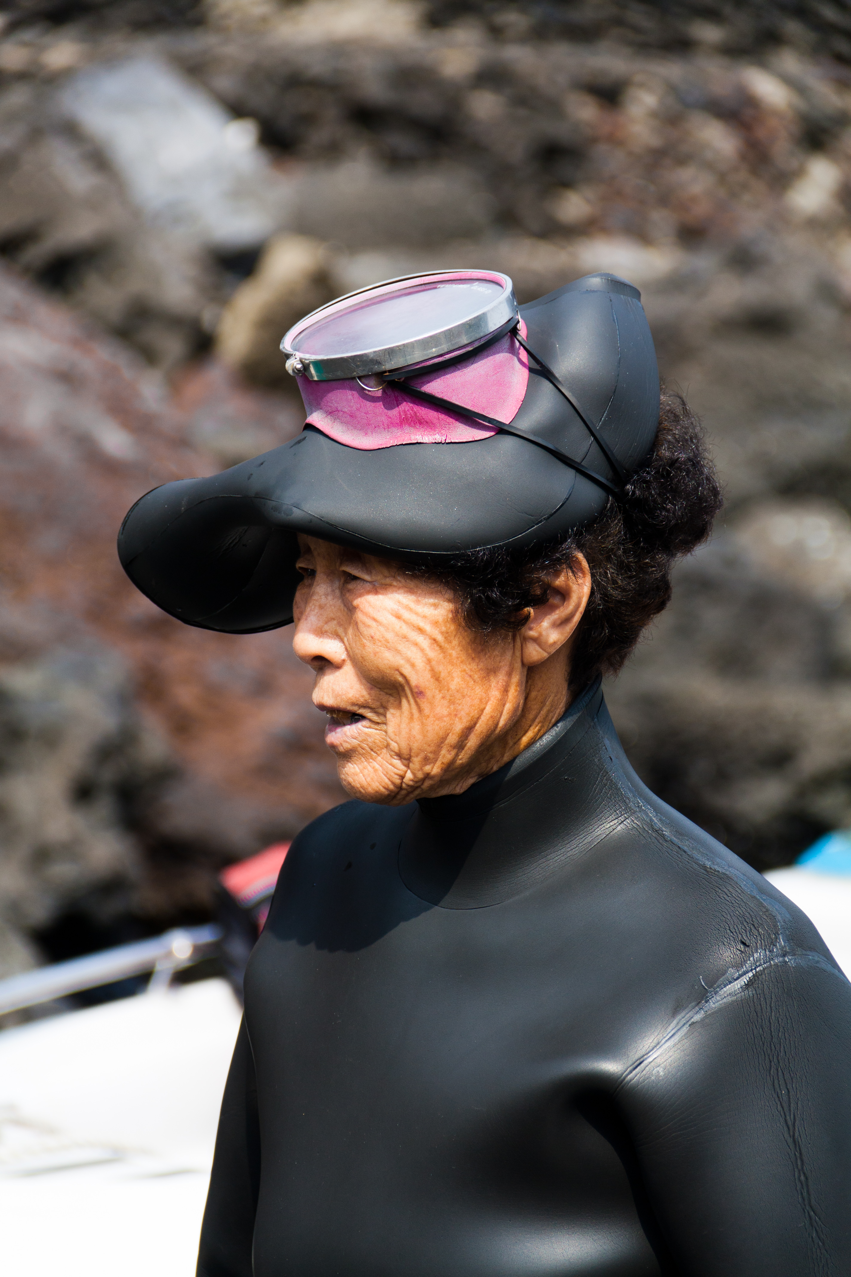 Hanyeo woman, Jeju